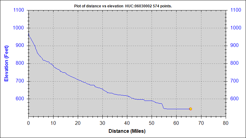 This map was created using USGS StreamStats software. Information generated by this software is considered public domain according to the USGS information policies cited here